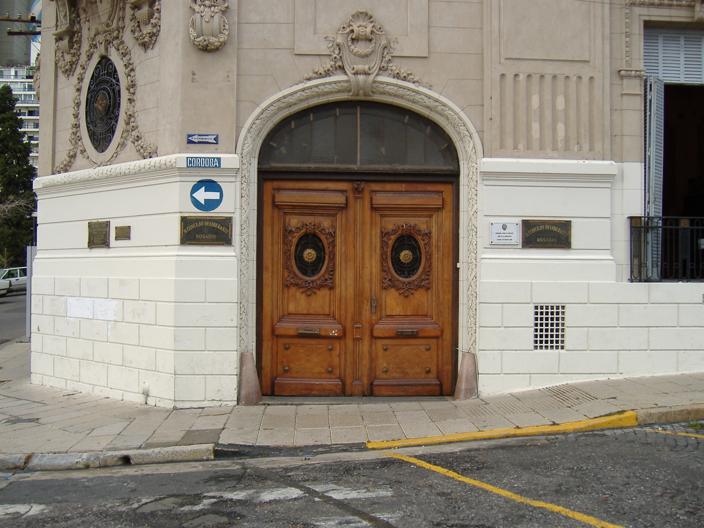 Palacio Vassallo ("Vassallo Palace"), the seat of the municipal legislative branch (Concejo Deliberante, Deliberative Council) in Rosario, Argentina. I, Pablo D. Flores, took this picture on 28 February 2006.